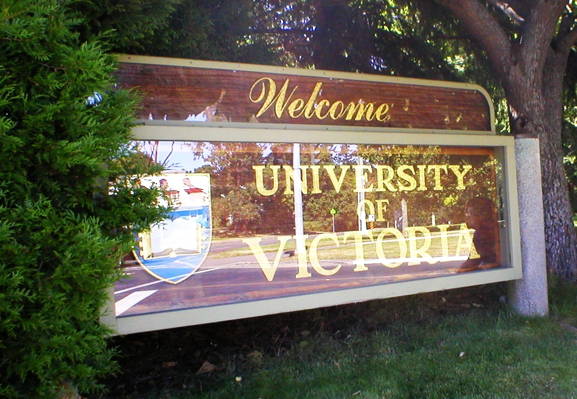 University of Victoria sign at campus entrance in Saanich, BC.